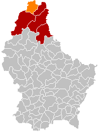 Own edit of Kanton ClervauxLocatie.png